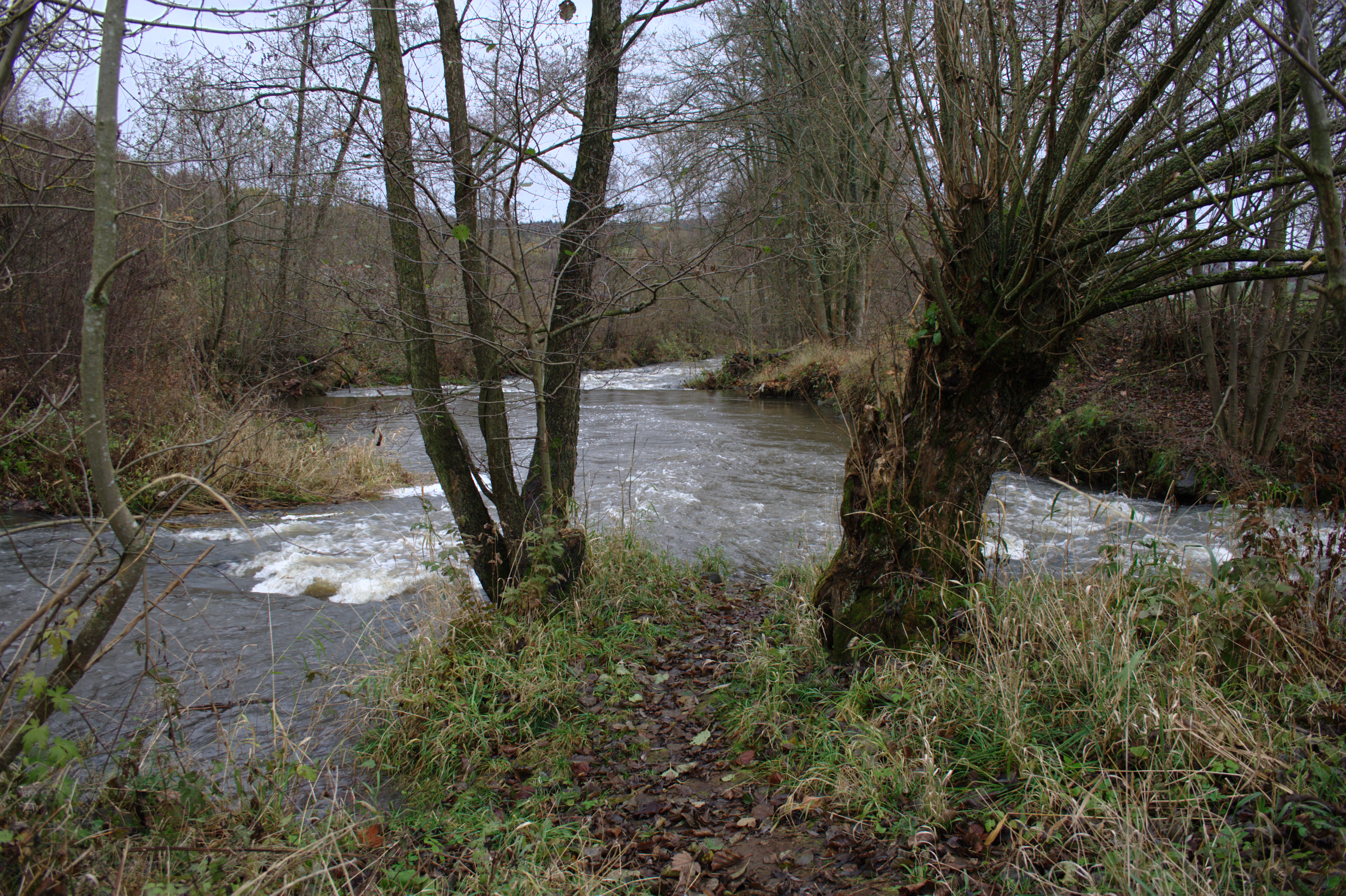 Confluence of rivers, the Altefeld (right) is joined by the Alten Hasel River (left).